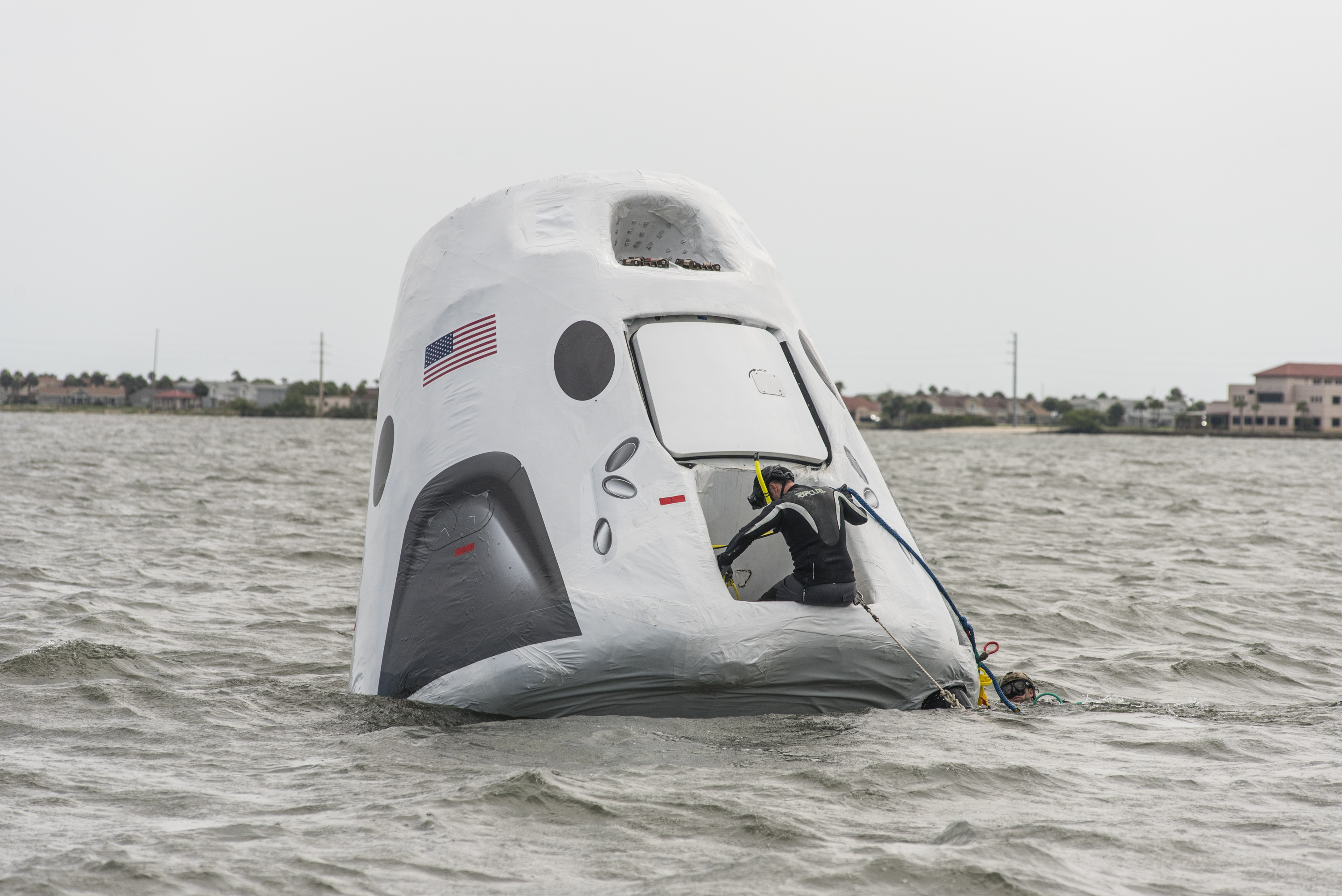 Personnel from NASA, SpaceX and the U.S. Air Force have begun practicing recovery operations for the SpaceX Crew Dragon. Using a full-size model of the spacecraft that will take astronauts to the International Space Station, Air Force parajumpers practice helping astronauts out of the SpaceX Crew Dragon following a mission. In certain unusual recovery situations, SpaceX may need to work with Air Force for parajumpers to recover astronauts from the capsule following a water landing. The recovery trainer was recently lowered into the Indian River Lagoon near NASA’s Kennedy Space Center allowing Air Force pararescue and others to refine recovery procedures. SpaceX is developing the Crew Dragon in partnership with NASA’s Commercial Crew Program to carry astronauts to and from the International Space Station.